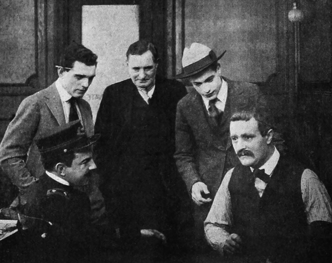 Wilfred Lucas in a scene from Acquitted